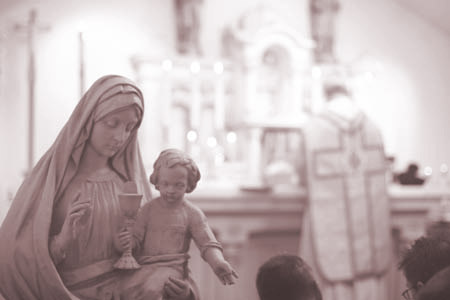 The Eucharist -- Bishop Thomas H. Hooker Jr celebrates Mass at St. Mychal Judge Old Catholic Church (Dallas TX USA)